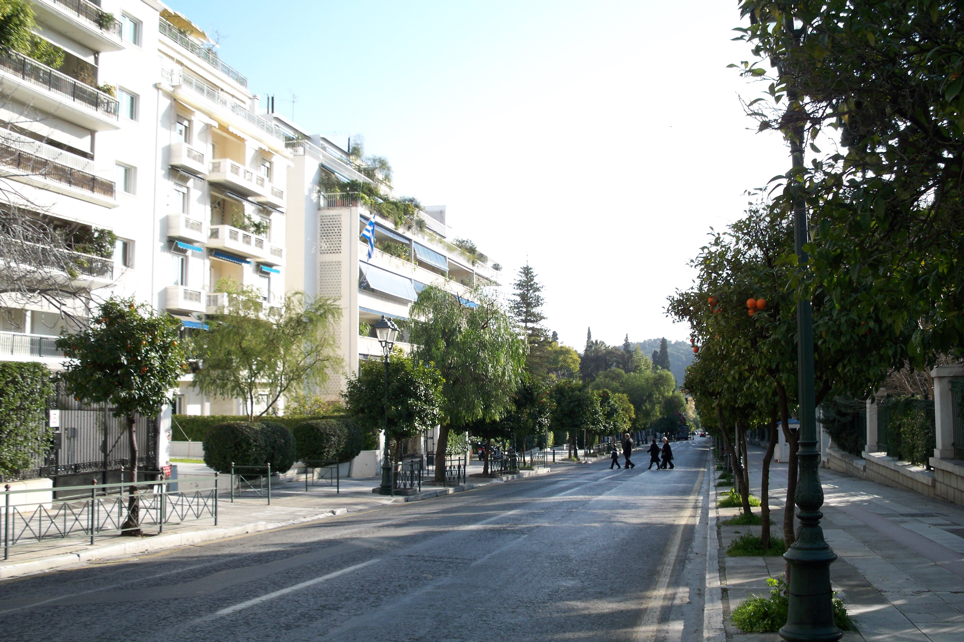 Herodou Attikou Street in central Athens.